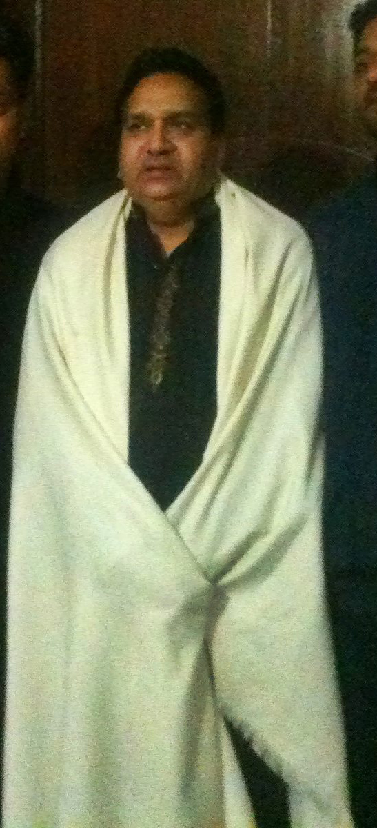 Photo